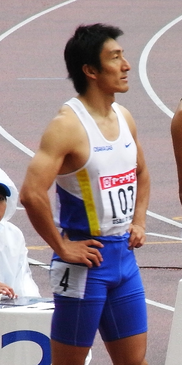 Nobuharu Asahara is a Japanese athlete.